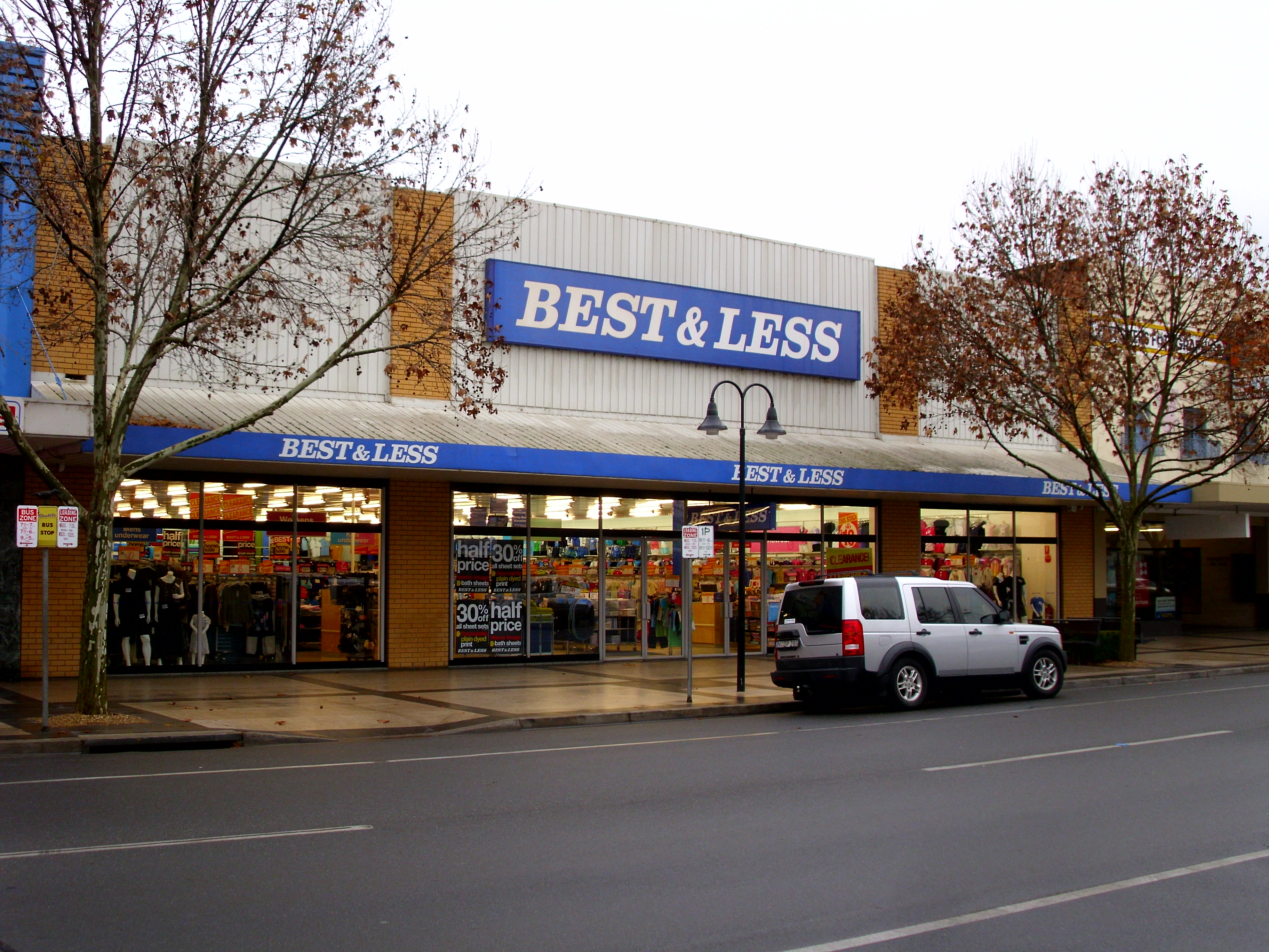 Best & Less store in Wagga Wagga.